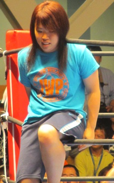 Japanese professional wrestler, Yako Fujigasaki. Aug 30 2015, Ice Ribbon Korakuen Hall.